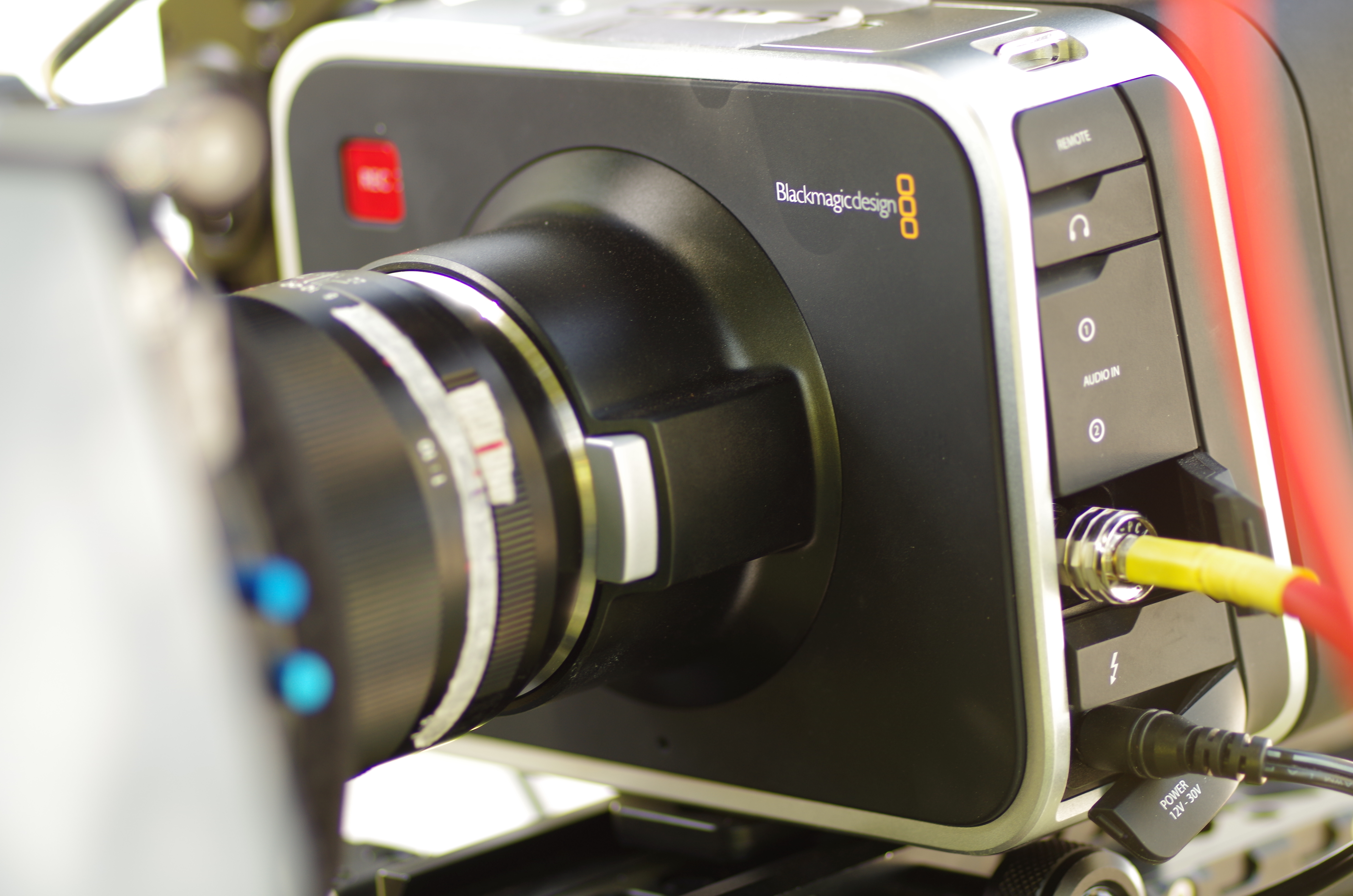 Blackmagic Design Cinema Camera. Photo taken with a Pentax K-30 DSLR and 100mm macro WR.